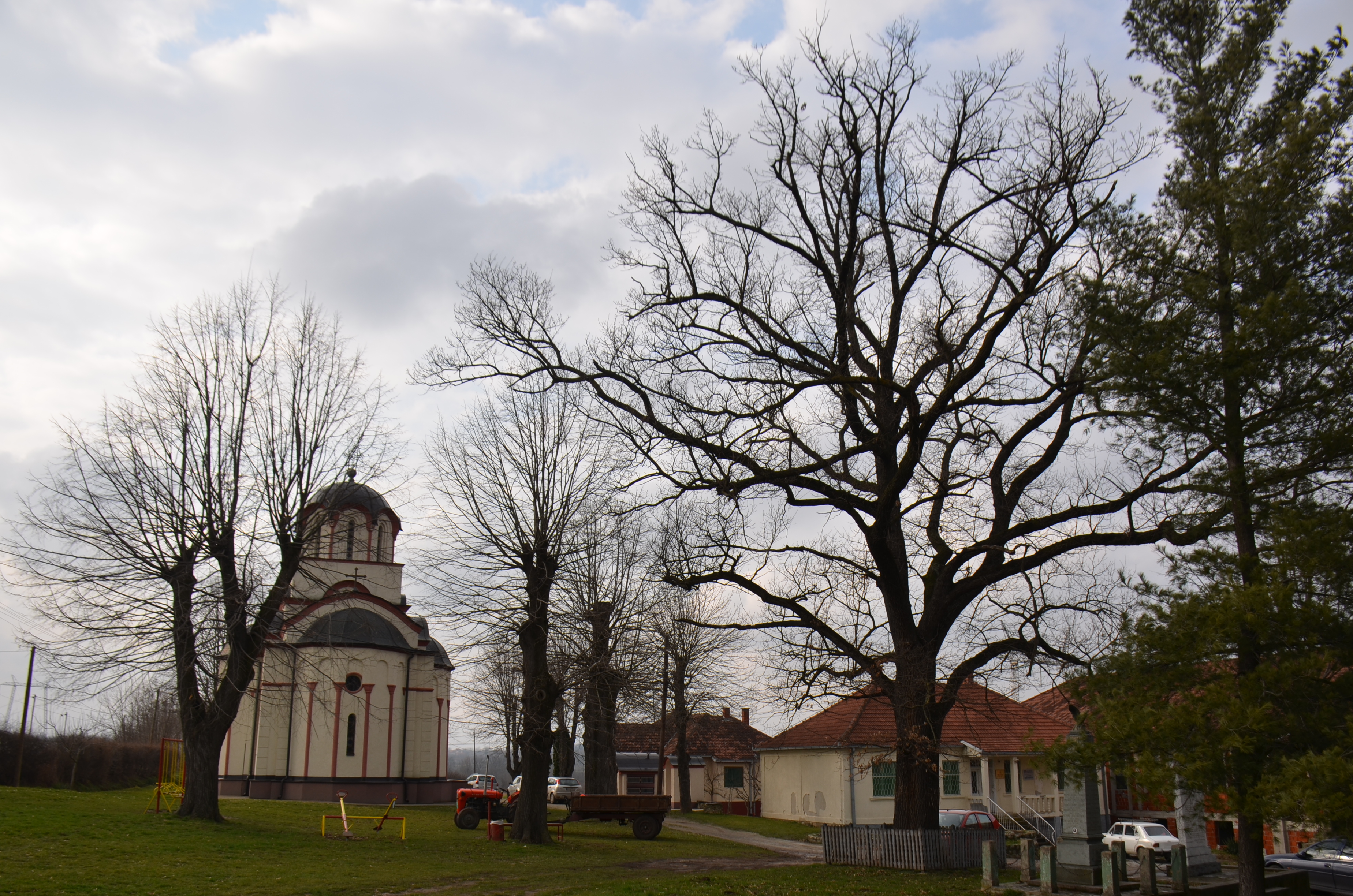 Zapis - Sacred Tree, Oak in village Cvetojevac, municipality Kragujevac, Serbia